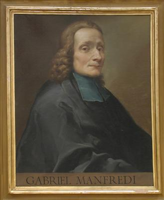 Gabriele Manfredi (25/03/1681 - 13/10/1761), Italian mathematician